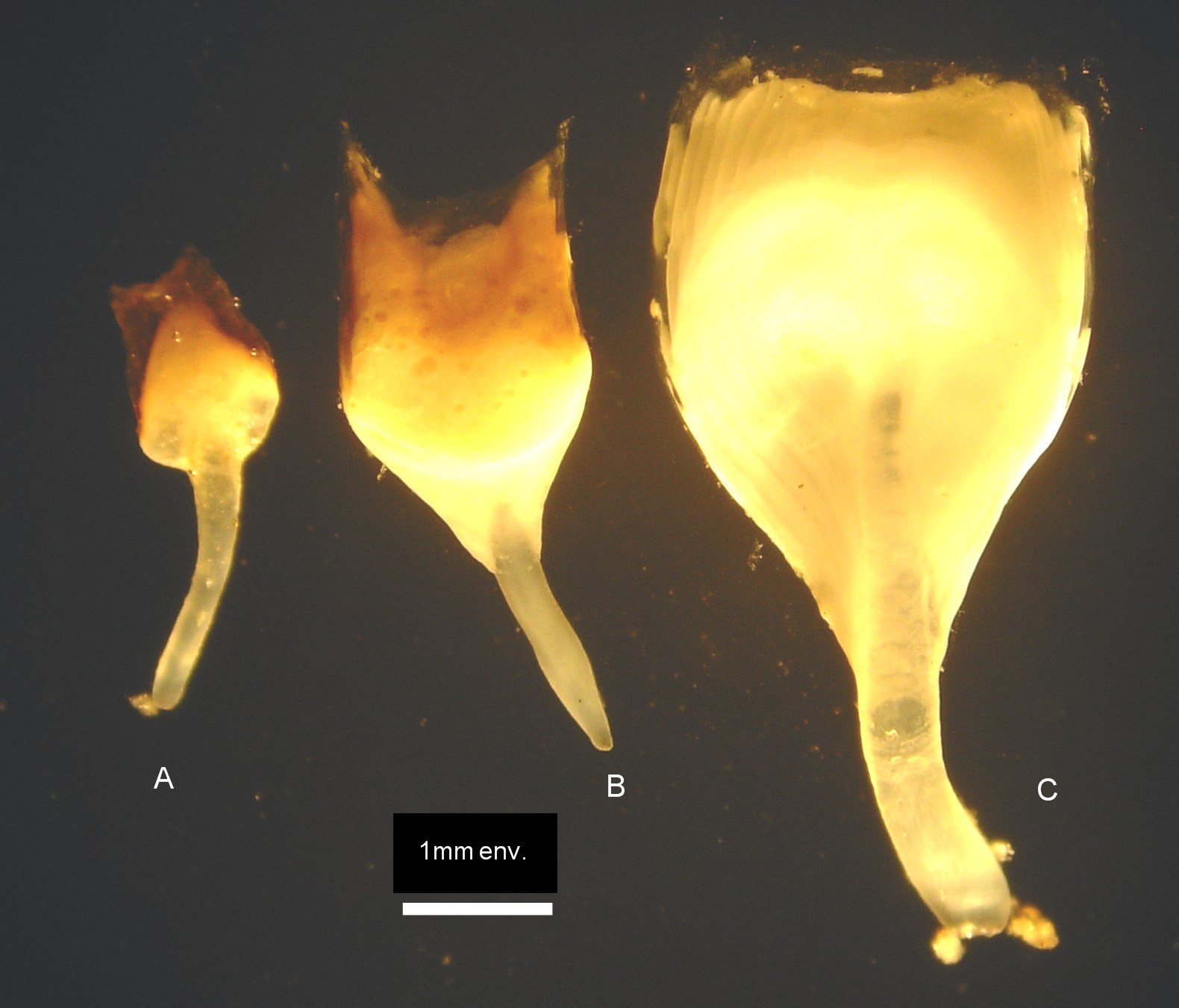 Pallets of three shipworms: A, Lyrodus pedicellatus; B, Teredo navalis; C, Nototeredo norvegica==Nototeredo norvagica